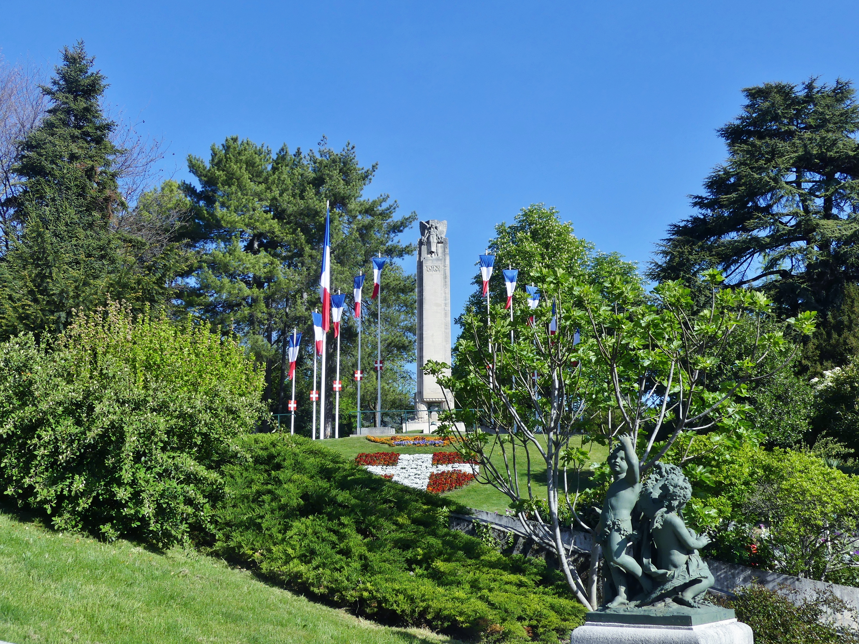 Sight of the Southern side and entrance of the Clos Savoiroux park of Chambéry, in Savoie, France. Can be seen a sculpture of Marmousets and the great war memorial at the background.